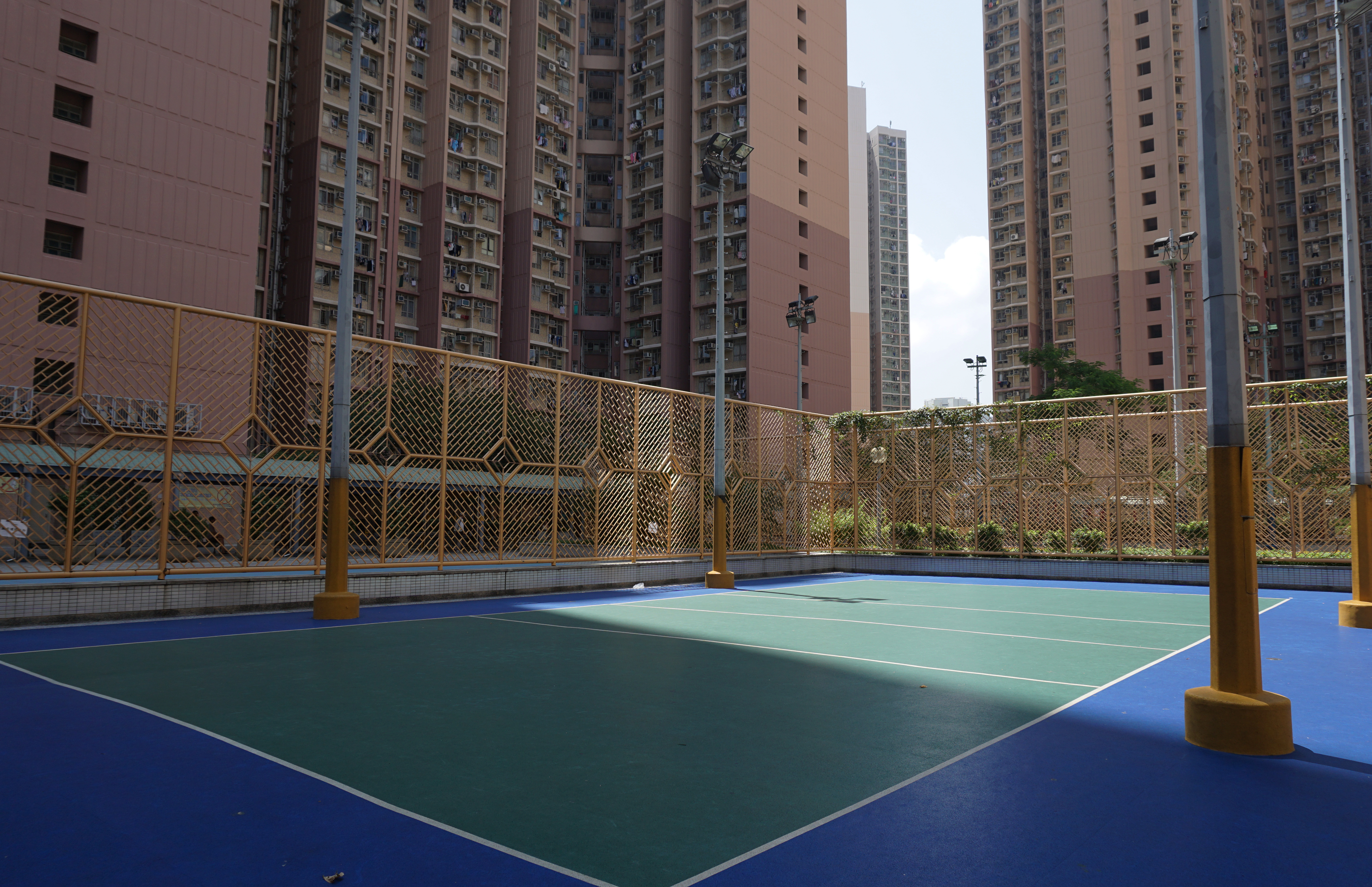 Sau Mau Ping Estate in Kwun Tong District, Hong Kong.